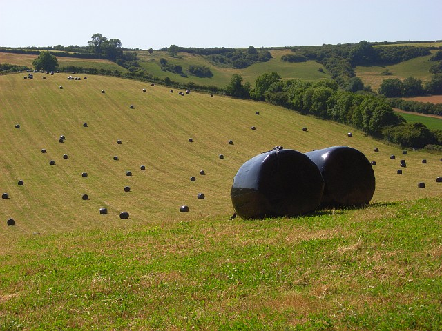 Silage bales, Sydling St Nicholas In a field spanning Church Bottom.